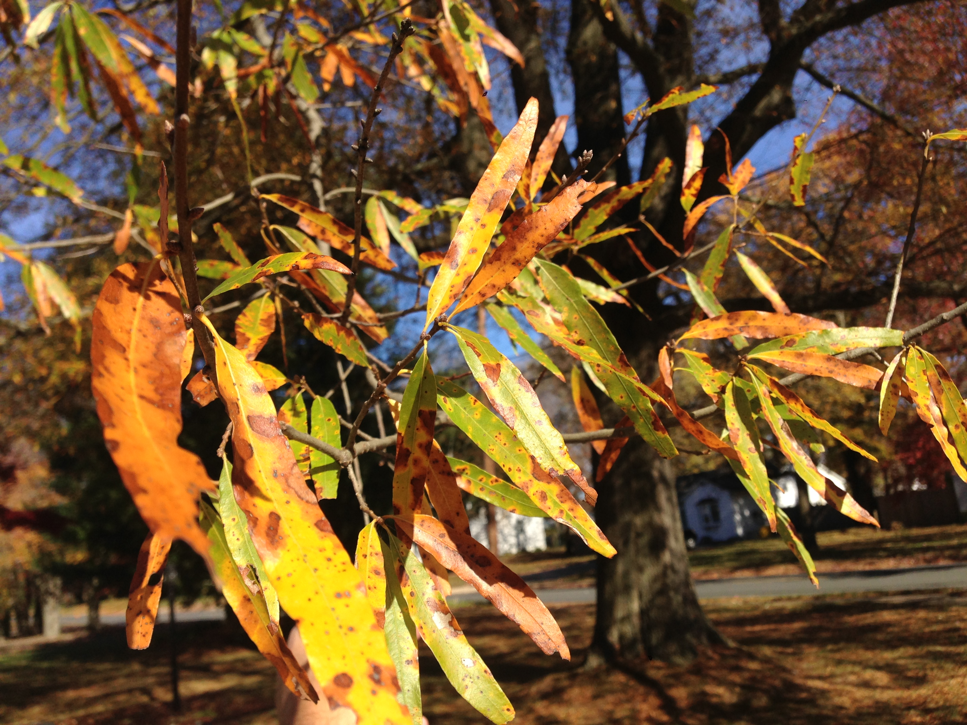 Willow Oak foliage during autumn along Great Woods Drive in Ewing, New Jersey